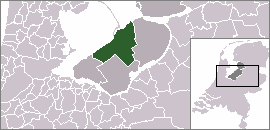 Location of Lelystad